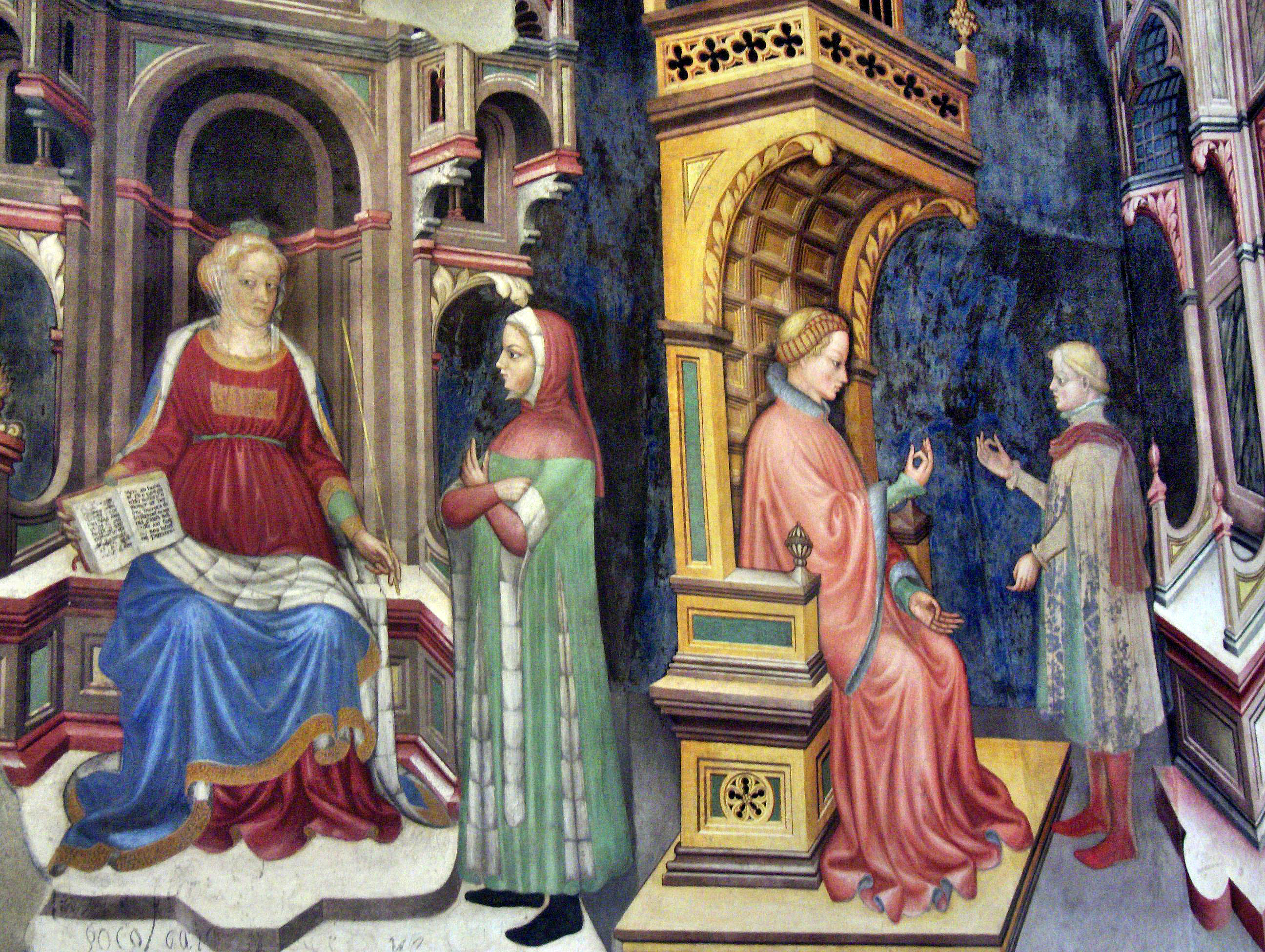 "Philosophy and Grammar". Fresco by Gentile da Fabriano. Hall of the Liberal Arts and of the Planets, Trinci palace, Foligno, Italy